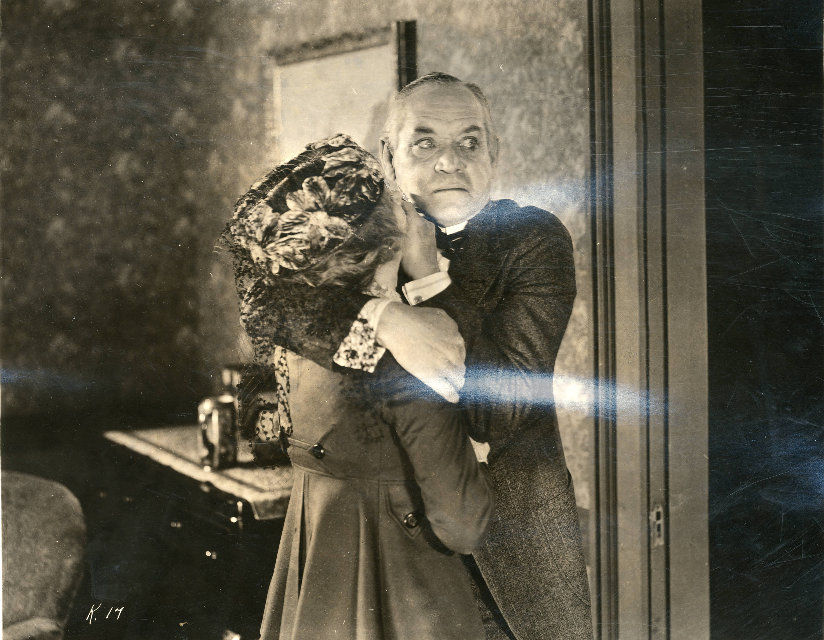 A scene from the American drama film The False Code (1919), which played at the Colonial Theater, Seattle. Includes Frank Keenan. Date stamped Feb. 5, 1920. Subjects: motion pictures, actors